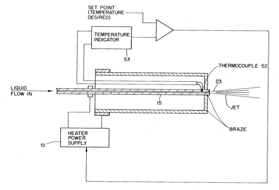 Diagram (cross sectional view) of fourth representation of thermospray vaporizer